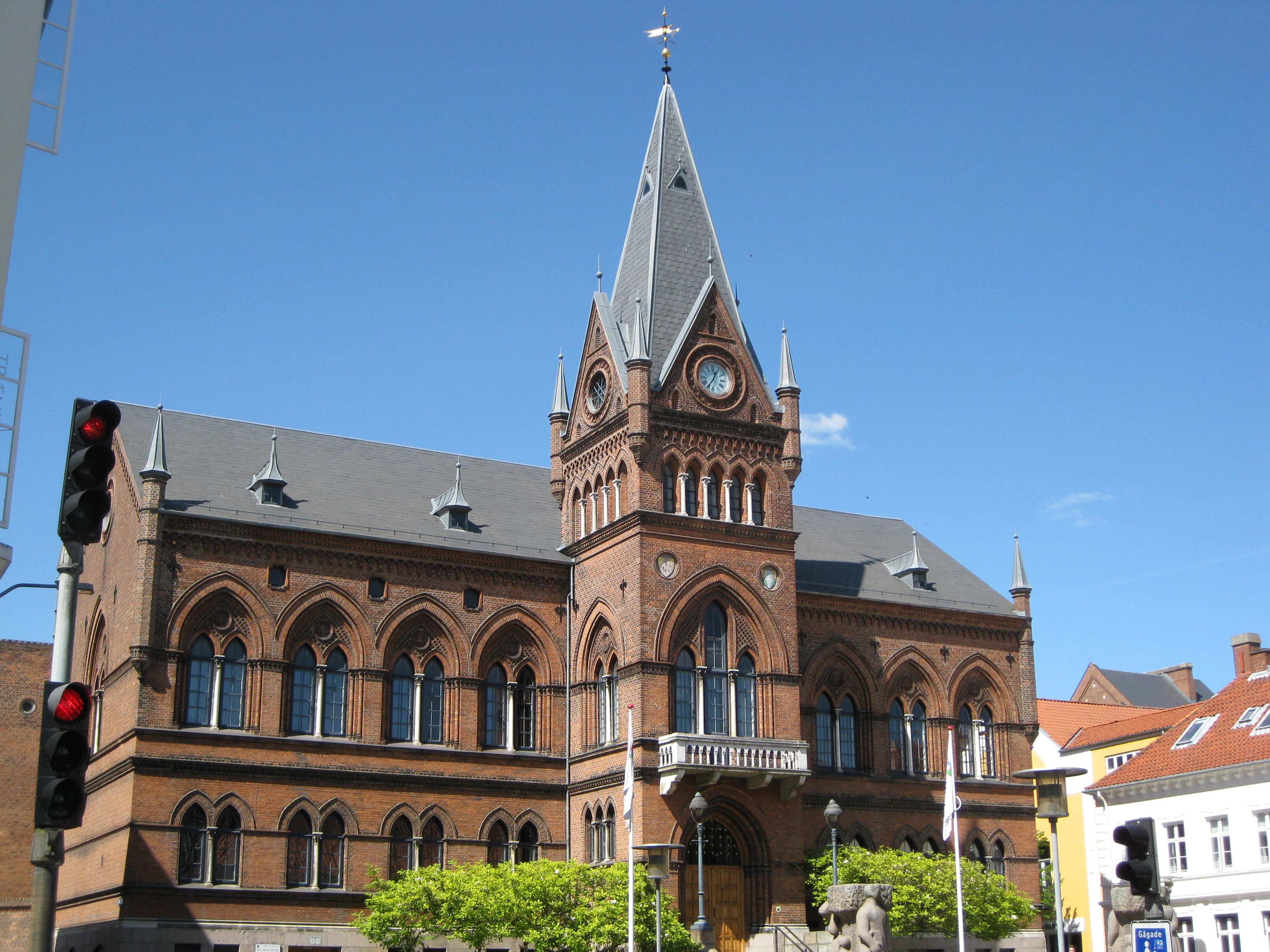 The town hall "Vejle Rådhus" in the town "Vejle". The town is located in South-Central Jutland, Denmark.